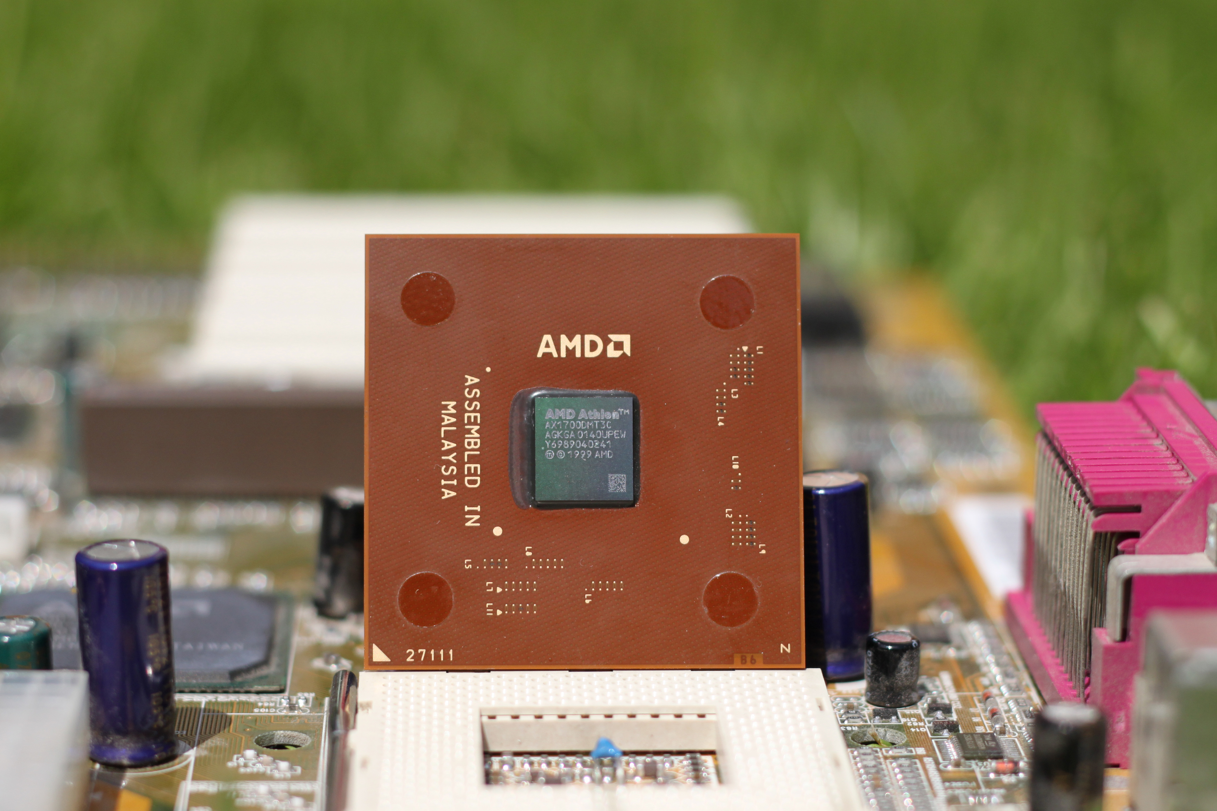 AMD Athlon XP 1700+ processor